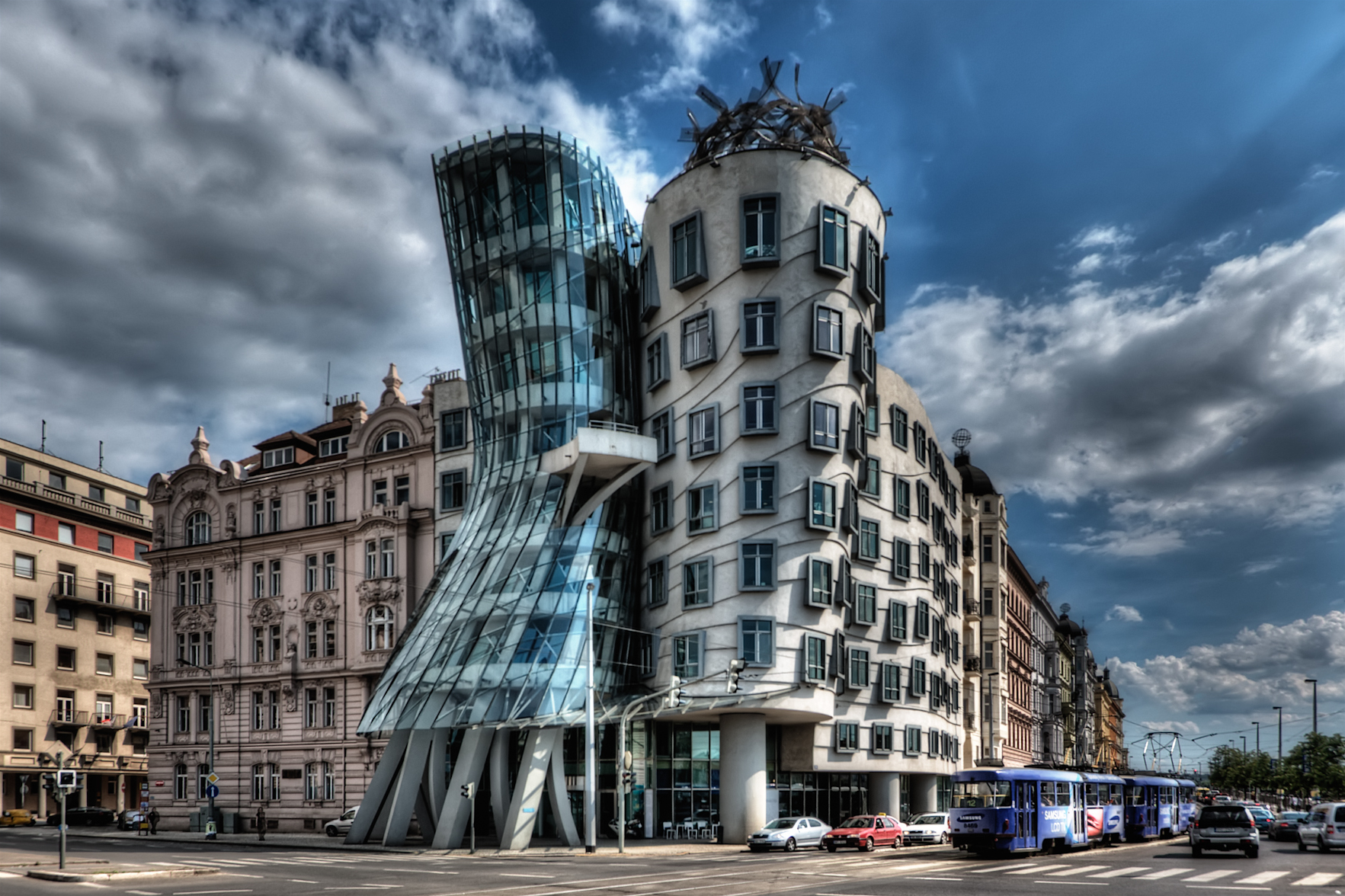 I have about 500 shots of the Dancing House in Prague from every possible angle, portrait and landscape. They've been sitting on my disk for almost 2 years. I didn't know how to process them as the light was not great and an early attempt using Photomatix was a disaster. ISO 100, 14mm, f6.3, (1/1600, 1/400, 1/100 secs). I chose the f-stop so that I would get fast enough speed for the moving cars. Blended and tonmeppaed in Photomatix using Details Enhancer. Reduced noise in Imagenomics Noiseware. Carefully straightened the vertilcals using the Lens Correction filter in PS as the whole point if the building is its vertical lines. Used the Freaky Details technique to get lots of details on the windows, etc. Used Nik Viveza to reduce the white glow around the building that was left over from Photomatix processing (masking the clouds). Used 15% Nik Glamour Glow to reduce the harshness of the Photomatix and Freaky Details.